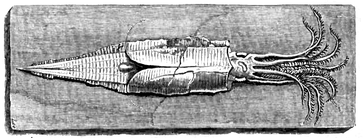 Belemnotheutis antiquus as illustrated by S.P. Woodward for Gideon Mantell's Petrifactions and Their Teachings, 1851